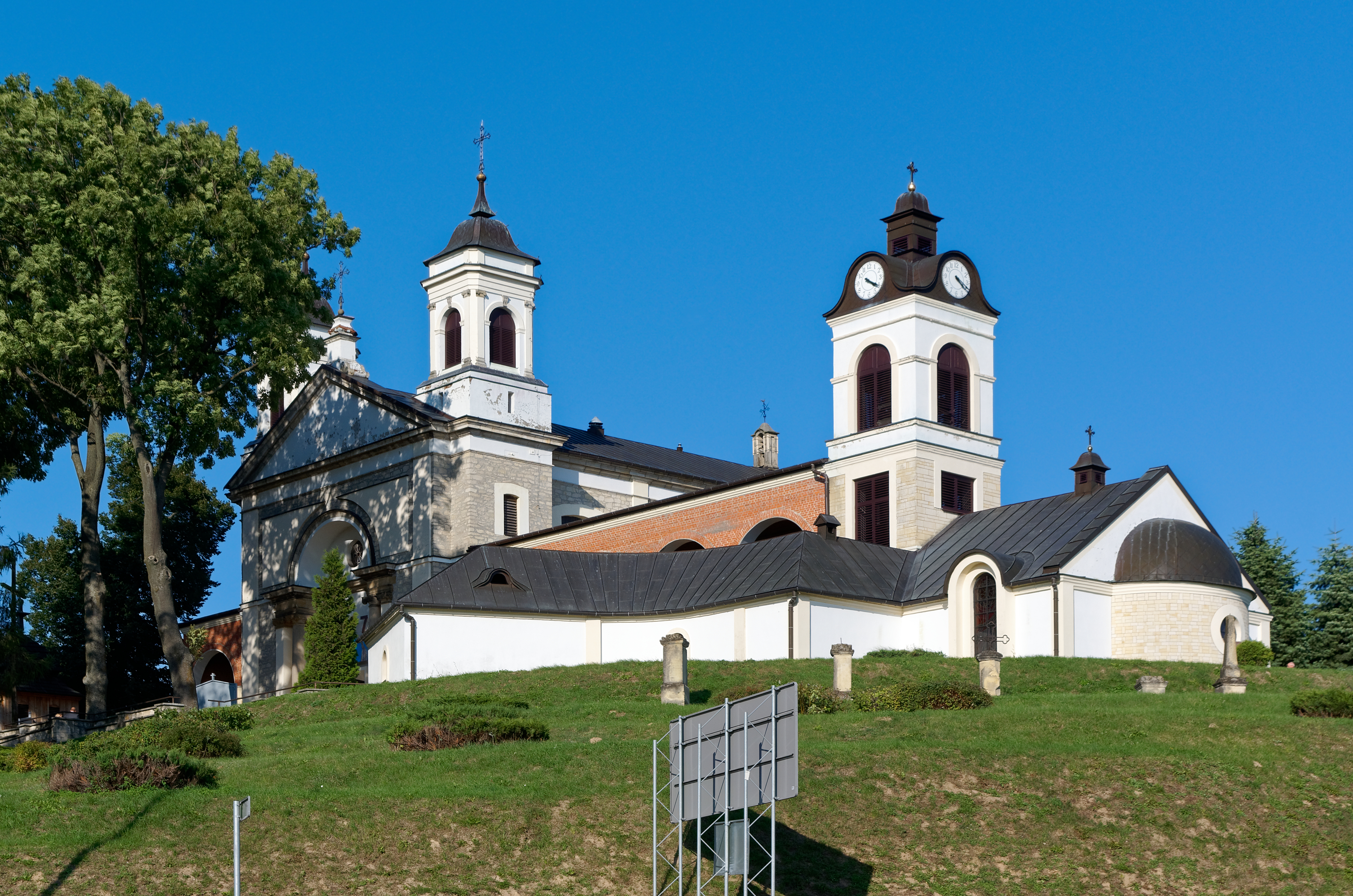 Saint Stanislaus Church in Ożarów